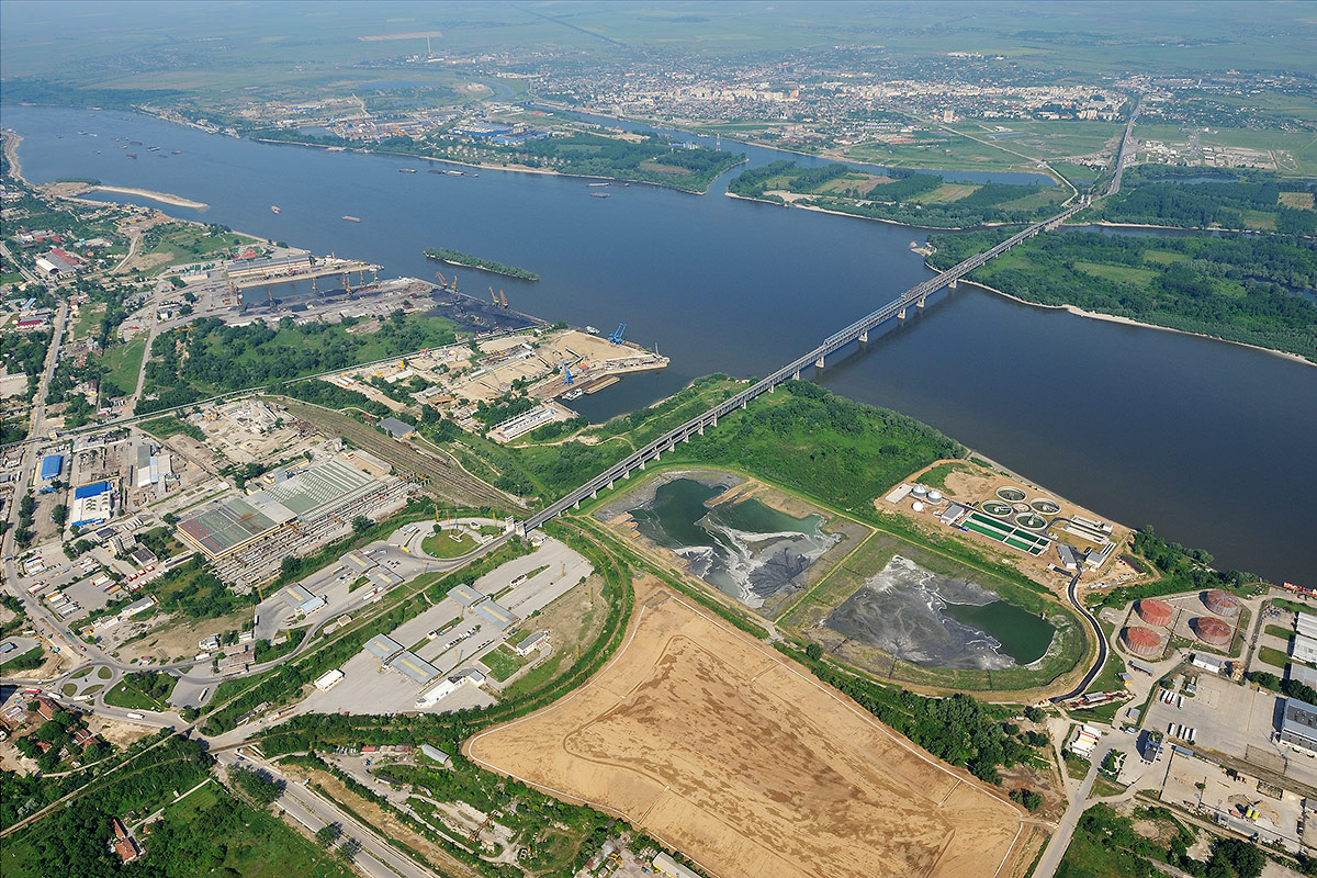 East Industrial zone, Ruse. The photo is uploaded with the permission of the author - Yavor Michev.